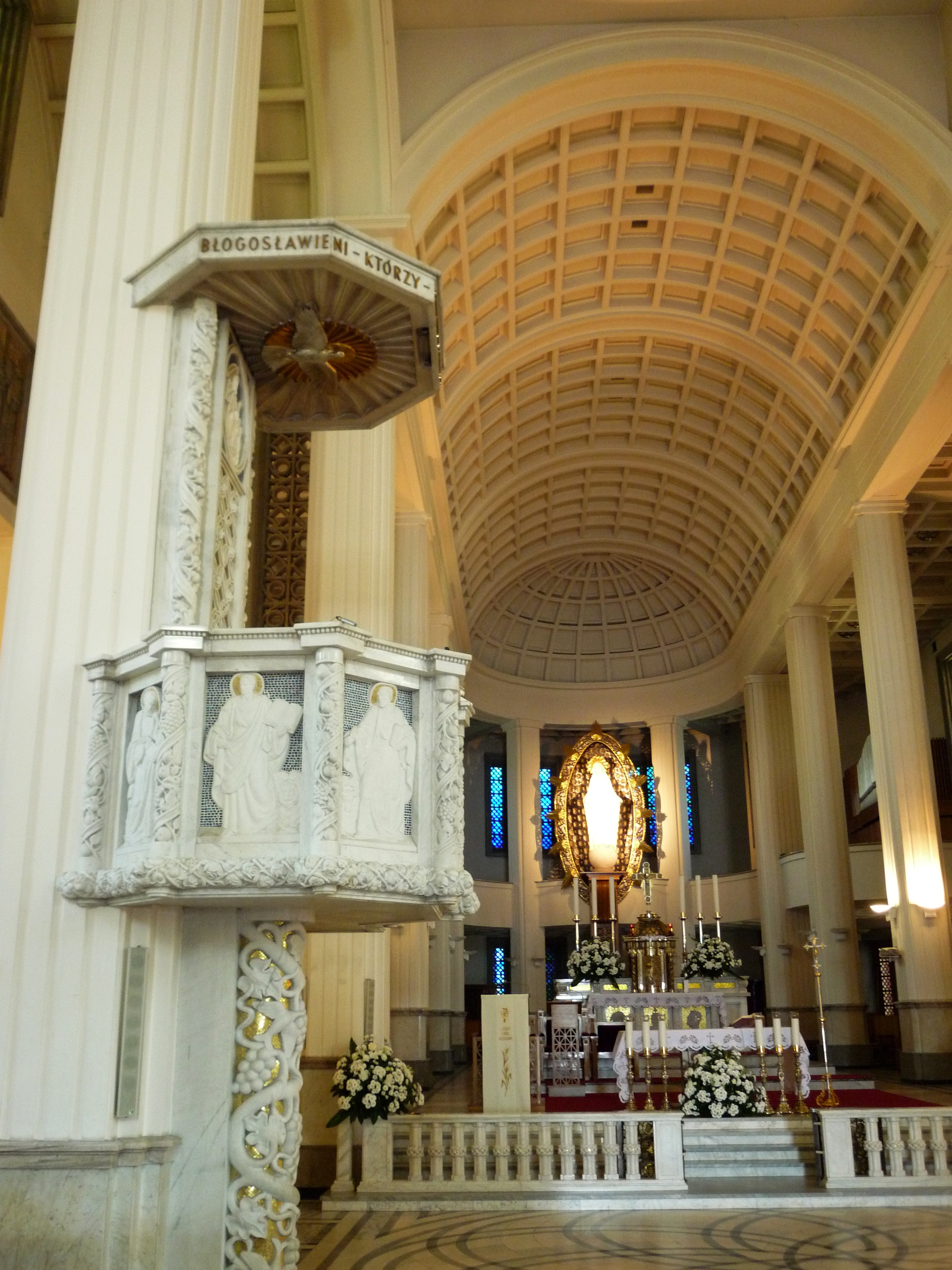 Inside the basilica of Niepokalanów